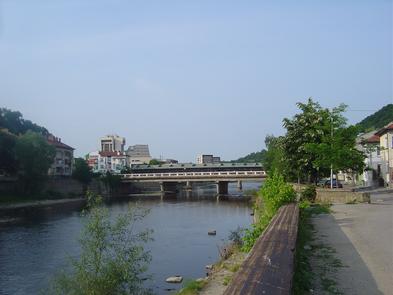 Lovech, covered Bridge over the river Osam